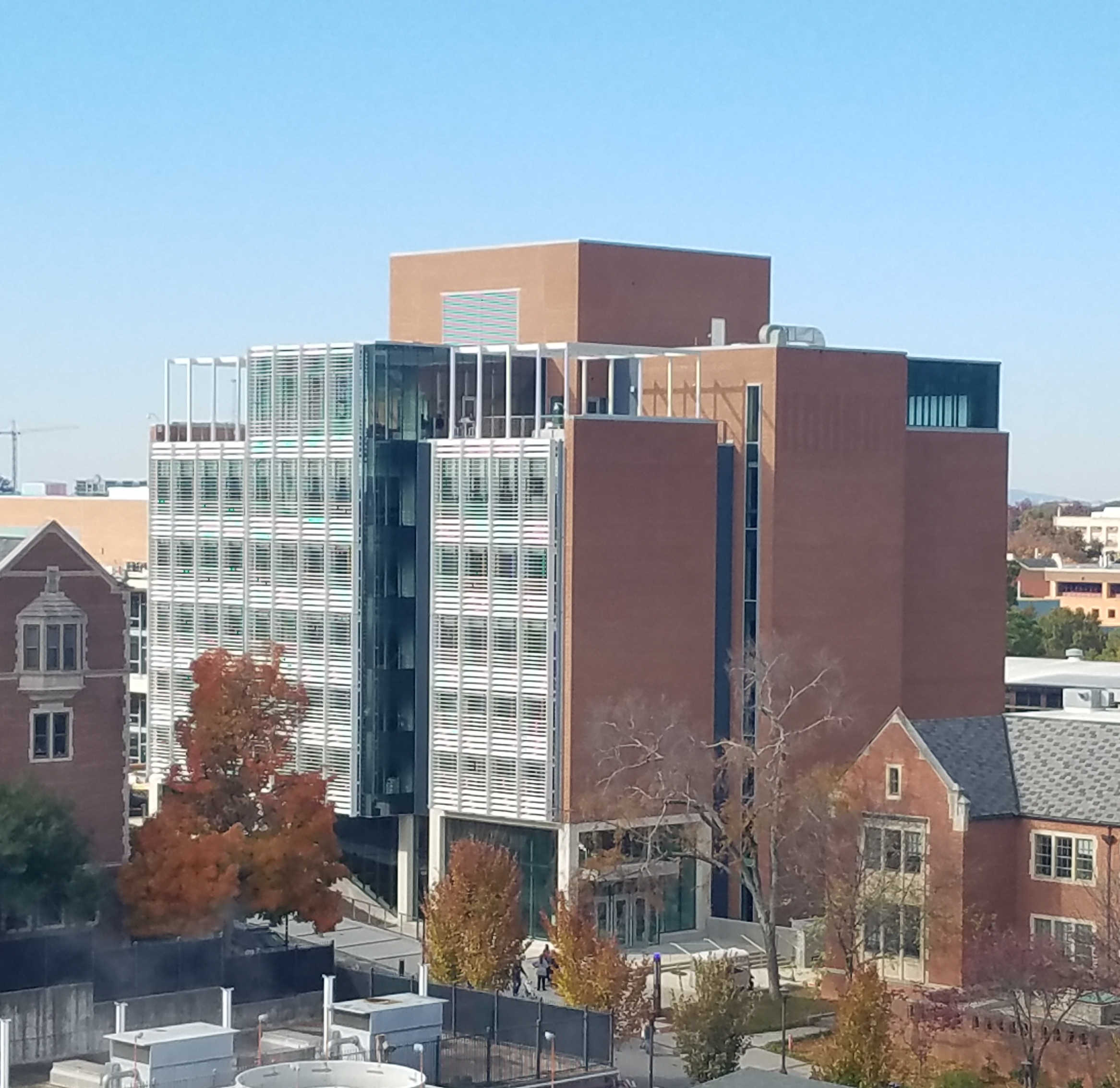 Crosland Tower, a part of the Georgia Tech Library, as viewed from Bobby Dodd Stadium.